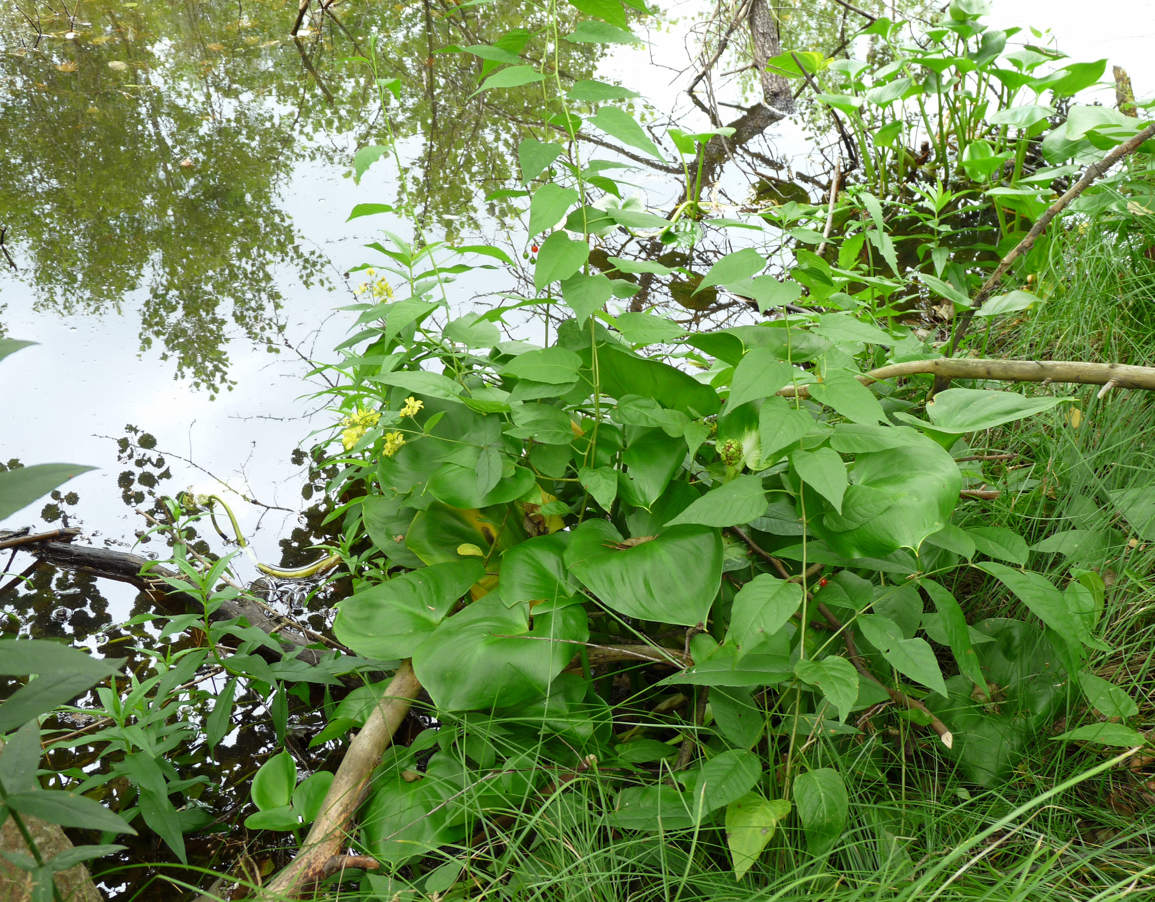 Calla in the pond of the natural monument Ďáblík, České Budějovice District, Czech Republic. Česky: Ďáblík bahenní v rybníku přírodní památky Ďáblík v okrese České Budějovice.